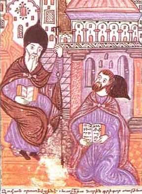 Armenian Miniature Hovhan Vorotneci and Grigor Tatevaci, 15th century